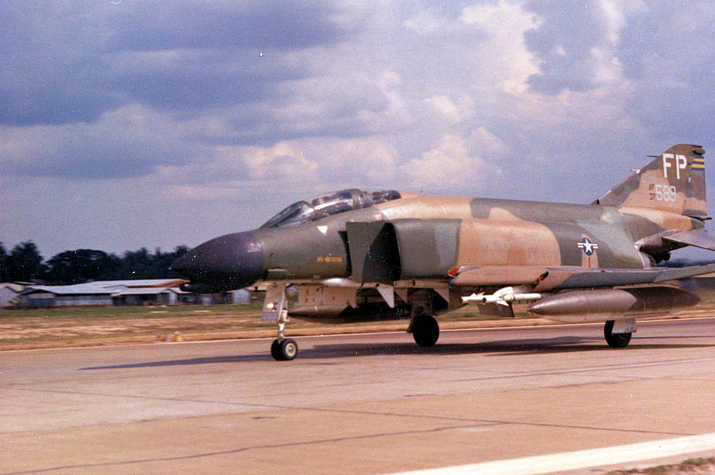 F-4C of the 497th Tactical Fighter Squadron, 8th Tactical Fighter Wing, rolls out on takeoff. It is configured for the MiGCAP escort role with Sparrow air-to-air missiles under the fuselage, and Sidewinder air-to-air missiles and extra fuel tanks under the wings. McDonnell F-4C-19-MC Phantom 63-7589 to AMARC as FP0032 Jan 21, 1987 (U.S. Air Force photo)